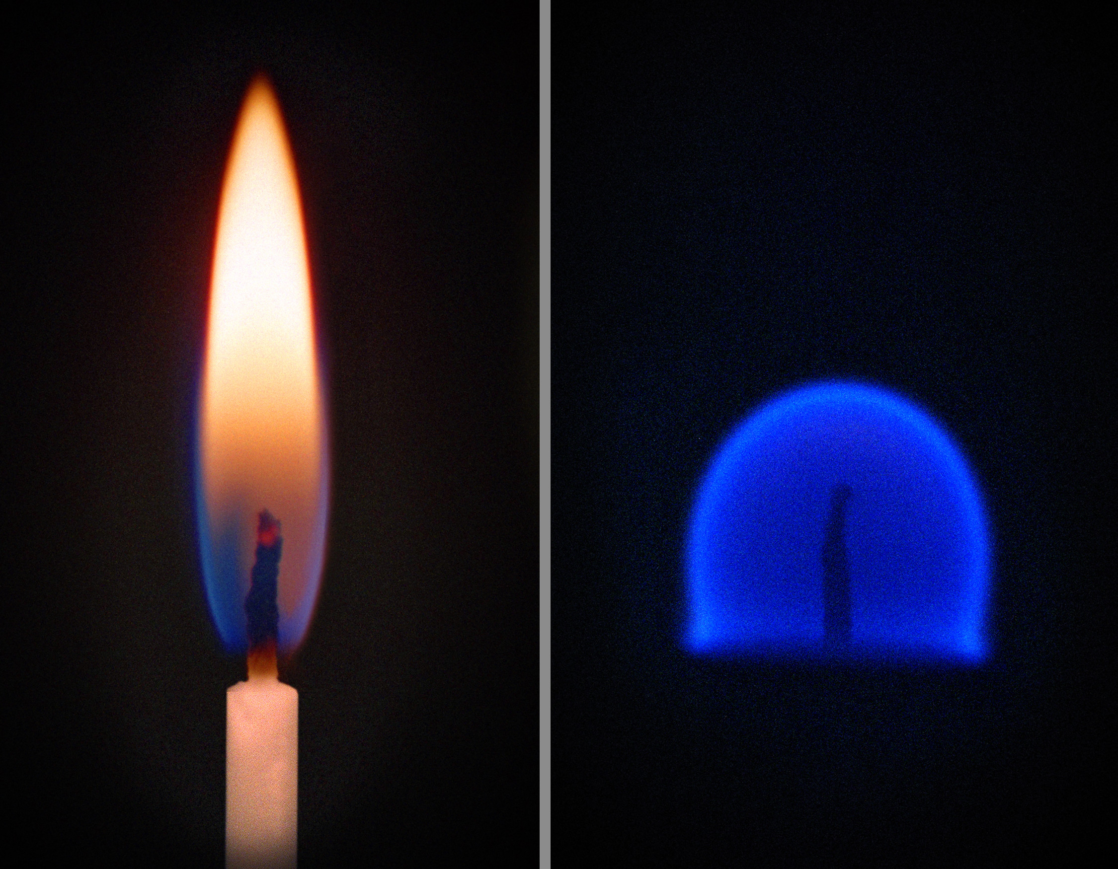 A comparison between a flame on Earth and a flame in a microgravity environment. This occurs because the flame on Earth is hot and since heat rises it makes that nice slender shape but since there isn't gravity in the second picture it just expands in a sphere.